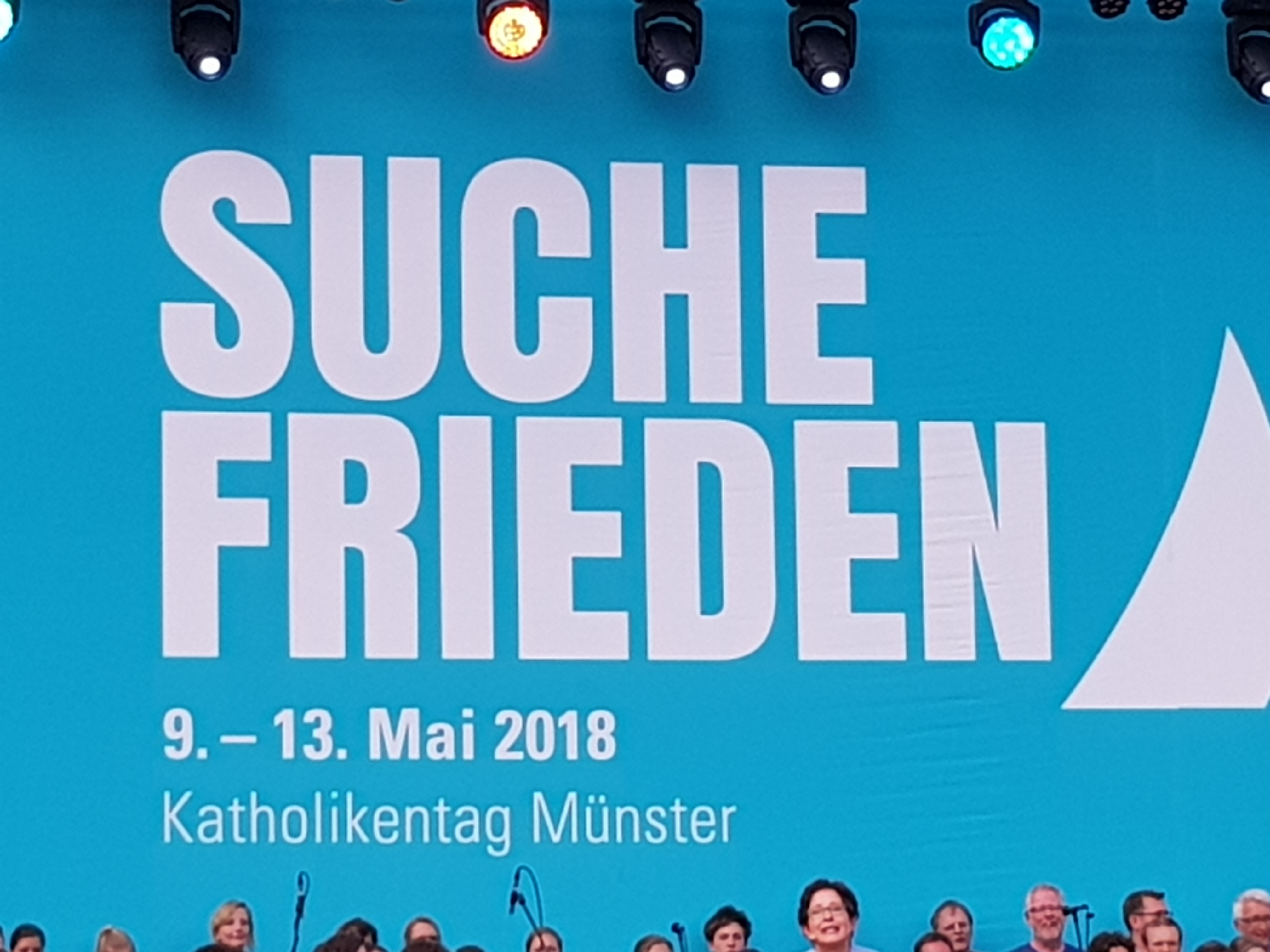 Motto des 101. Katholikentags in Münster